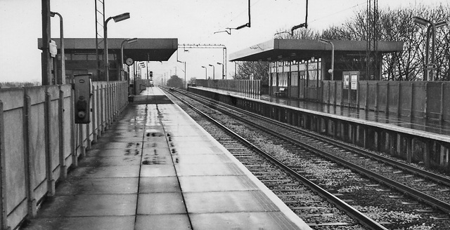 Burnage Station. View northward, towards Manchester (London Road); ex-London & North Western, Manchester - Longsight Styal - Wilmslow Loop line, electrified 1960.